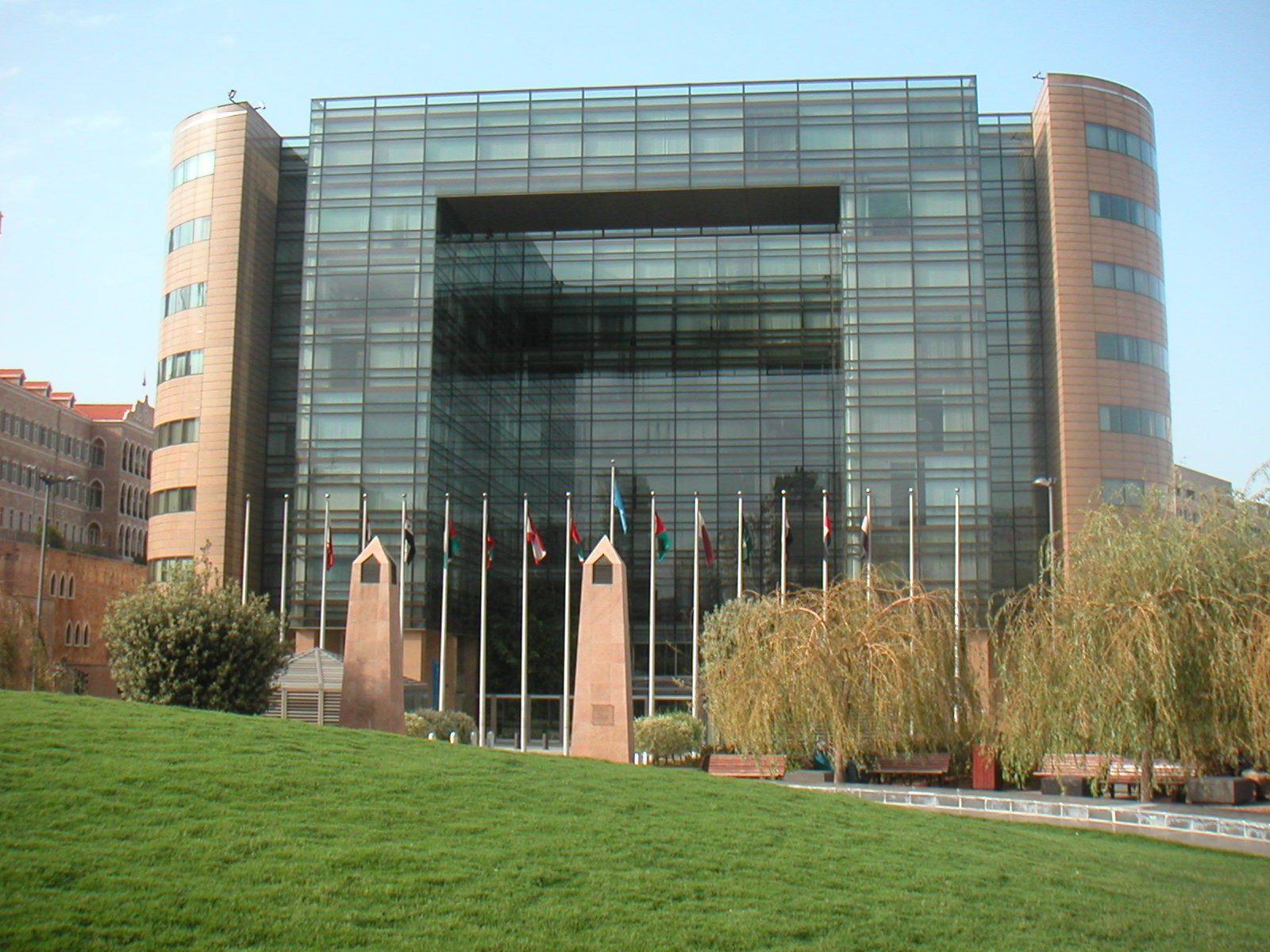 UN in Beirut